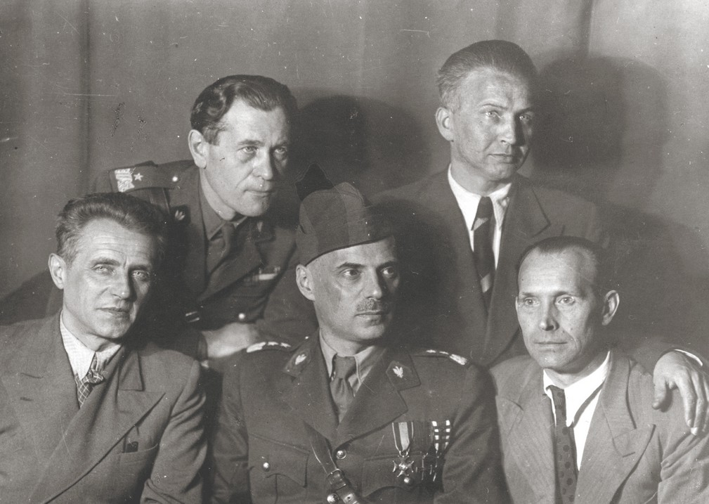 Generals of the Polish Army: Michał Karaszewicz-Tokarzewski, Władysław Anders, Mieczysław Boruta-Spiechowicz (first row from the left), Zygmunt Bohusz-Szyszko, Leopold Okulicki (second row)